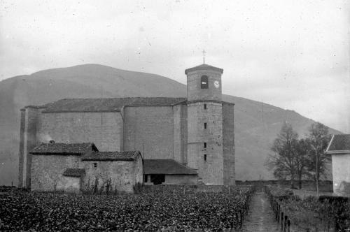 Amasa